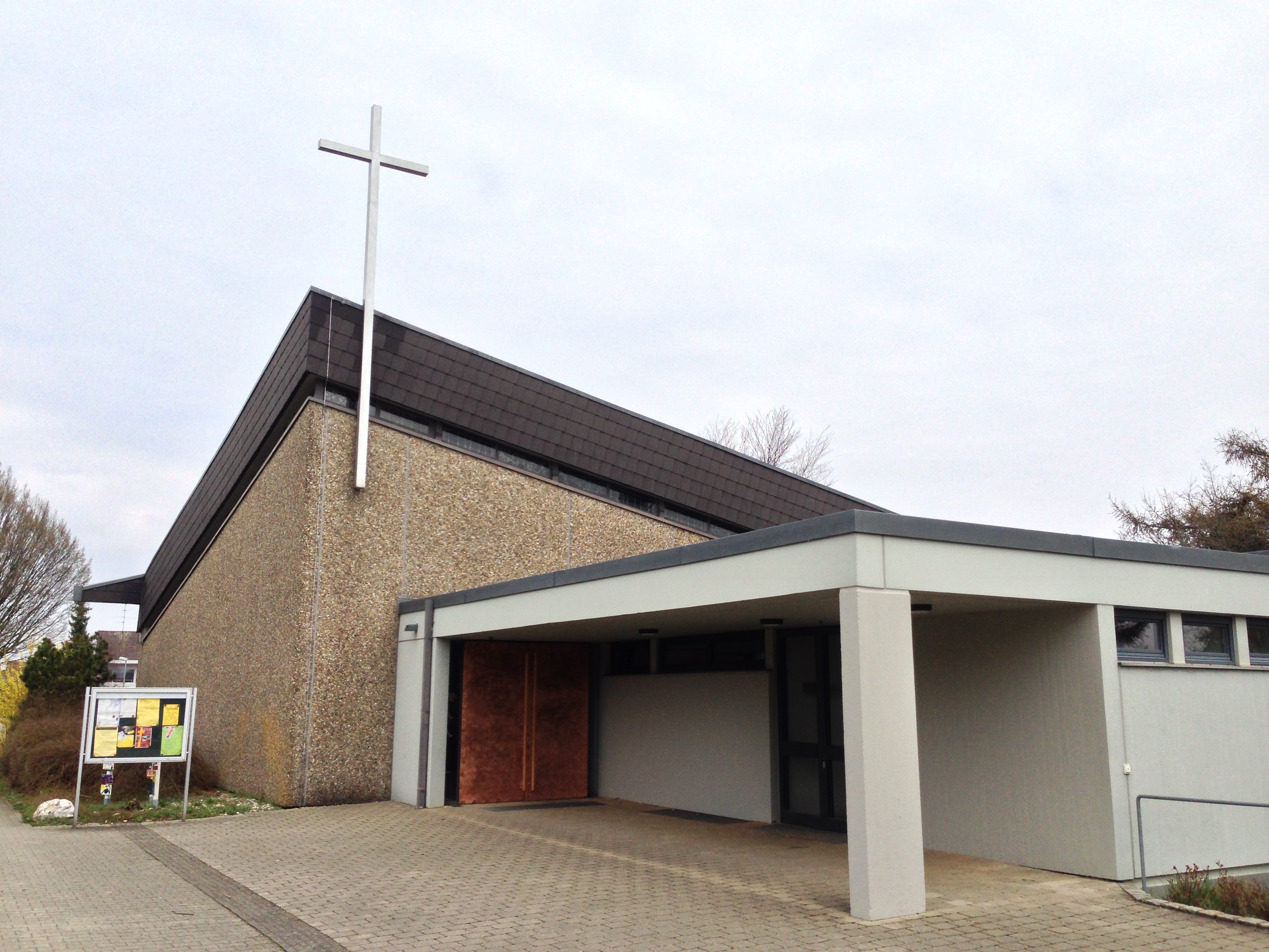 Allerheiligenkirche (Church of All Saints) in Ulm-Lehr, Germany, 2013